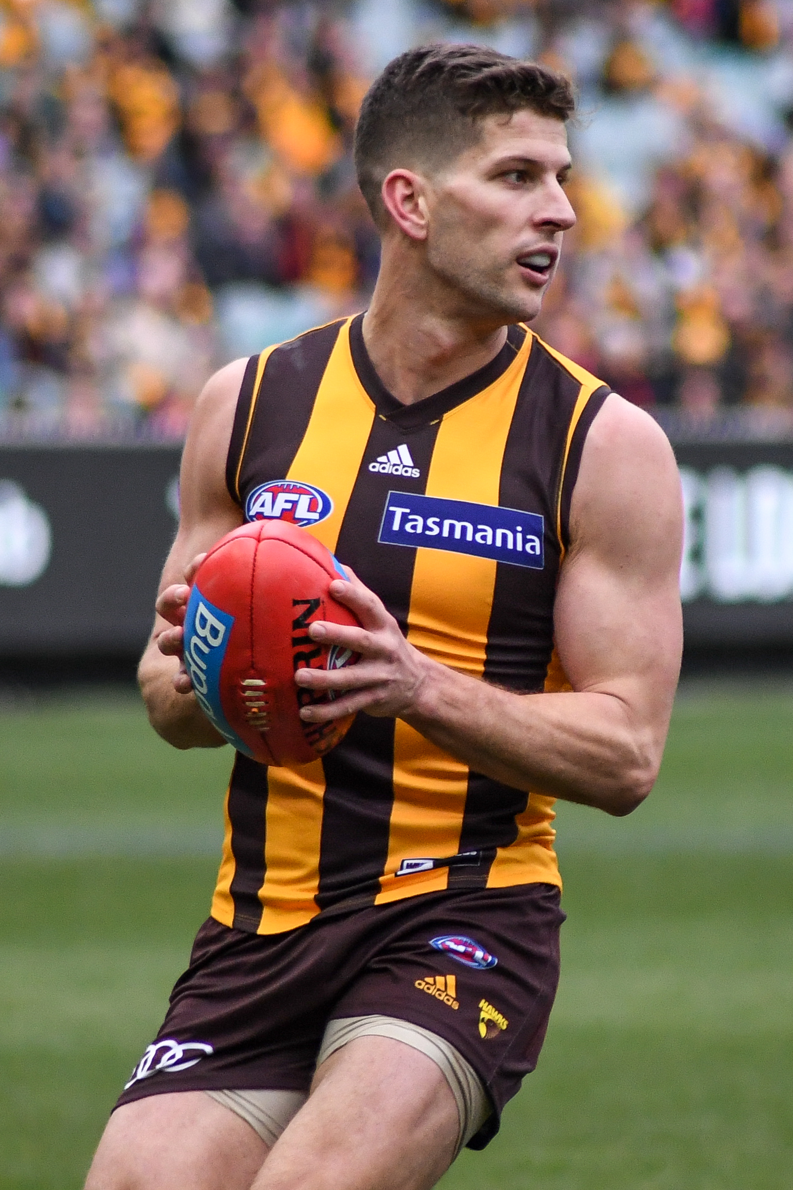 Luke Breust of Hawthorn during the 2018 AFL round 20 match between Hawthorn and Essendon at the Melbourne Cricket Ground on Saturday, 4 August 2018 in Melbourne, Victoria.